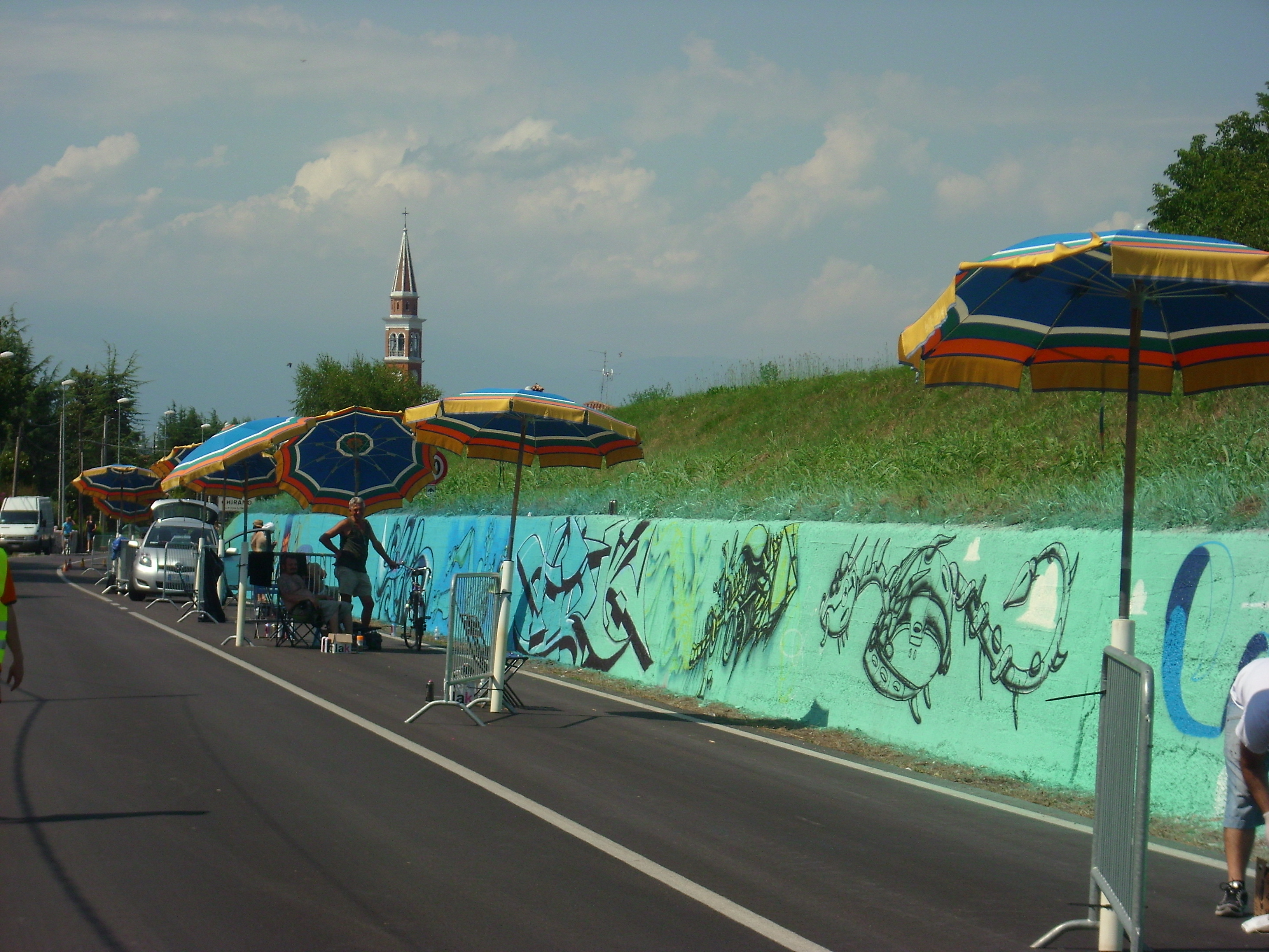 Graffiti in Ghirano (PN)